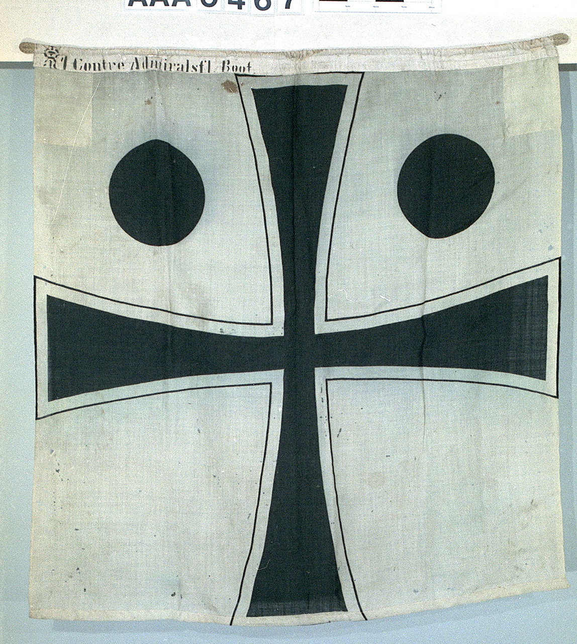 Command flag, Rear Admiral, Imperial Germany (1869-1918) Command flag, Rear Admiral, Imperial Germany, 1869-1918 pattern. It was reputedly removed from the battlecruiser 'Hindenburg' 1915 after her scuttling at Scapa Flow, 21 June 1919. The 'Hindenburg' sank slowly on an even keel, and her upperworks remained above the water. In 1930 she was re-floated and towed away for scrap. The flag is likely to be that of the German Commander of the interned fleet, Rear-Admiral Ludwig von Reuter (1869-1943). It was he who ordered that its ships should be sunk rather than be handed over to the Allies as part of the peace terms. Ludwig von Reuter had been captain of 'Derfflinger' during the battle of Dogger Bank. As Commodore, he commanded the Fourth Scouting Group of light cruisers at Jutland and as Rear Admiral SMS 'Kaiser' and SMS 'Kaiserin' during the second battle of Heligoland Bight in 1917. He was ordered to take command of the High Seas Fleet during its internment after Admiral Franz von Hipper had refused. The flag is made of wool bunting with a cotton hoist. It is machine sewn with the design printed onto the fabric. A rope is attached to the flag for hoisting. Stencilled on the hoist :'Contre Admirals fl Boot' (indicating that it was a boat flag) also the initial 'W' with a crown above. The flag has a white field with a black cross pattée and two black discs in the hoist quarters. unavailable